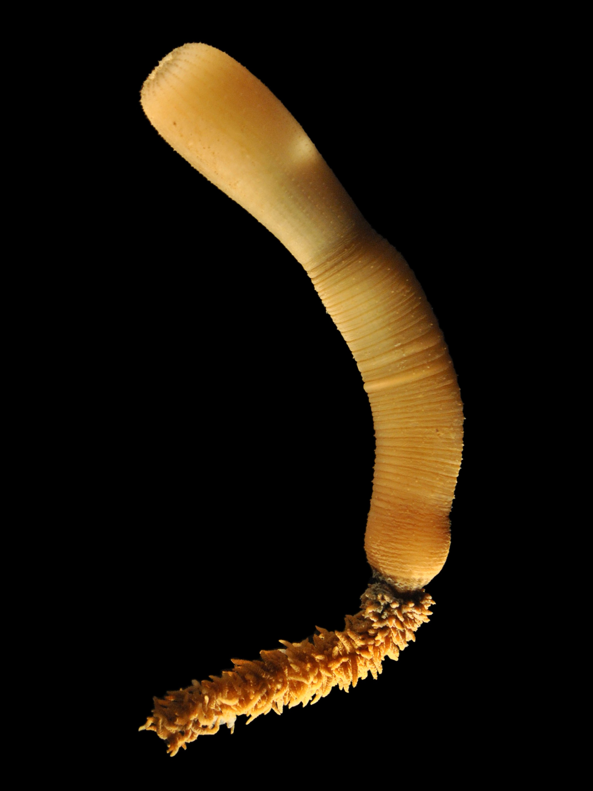 Adult specimen of the penis worm Priapulus caudatus.